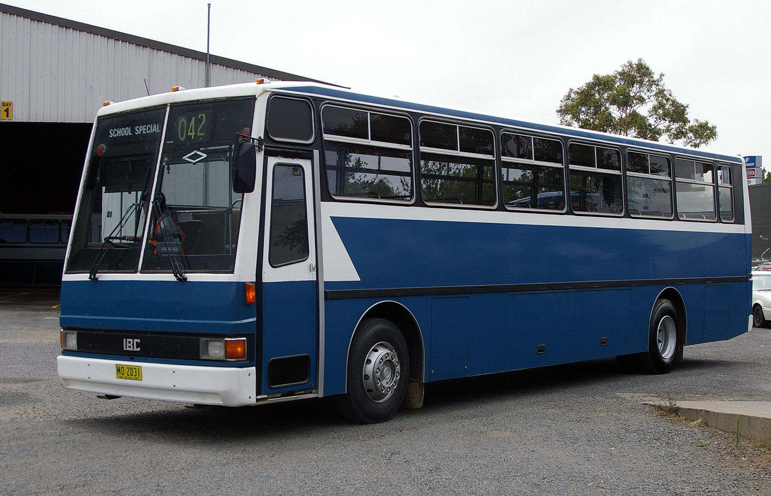 Jakab bodied IBC - Perkins Phaser.